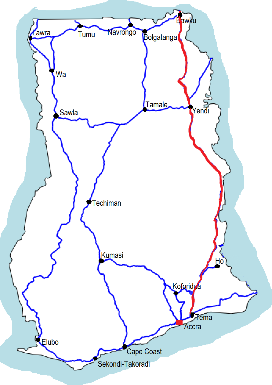 Ghana N2 highway route